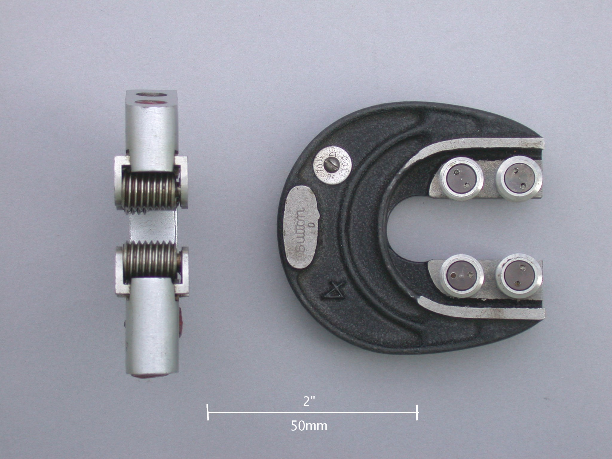 Gap style, Go NoGo thread gauge. A front and side view of two similar thread gauges. Holes for the adjusting screws are just visible at the top of the front view gauge. The side view gauge is adjusted by means of a pin spanner at the end of each roller (two holes in the end of each roller's shaft.)